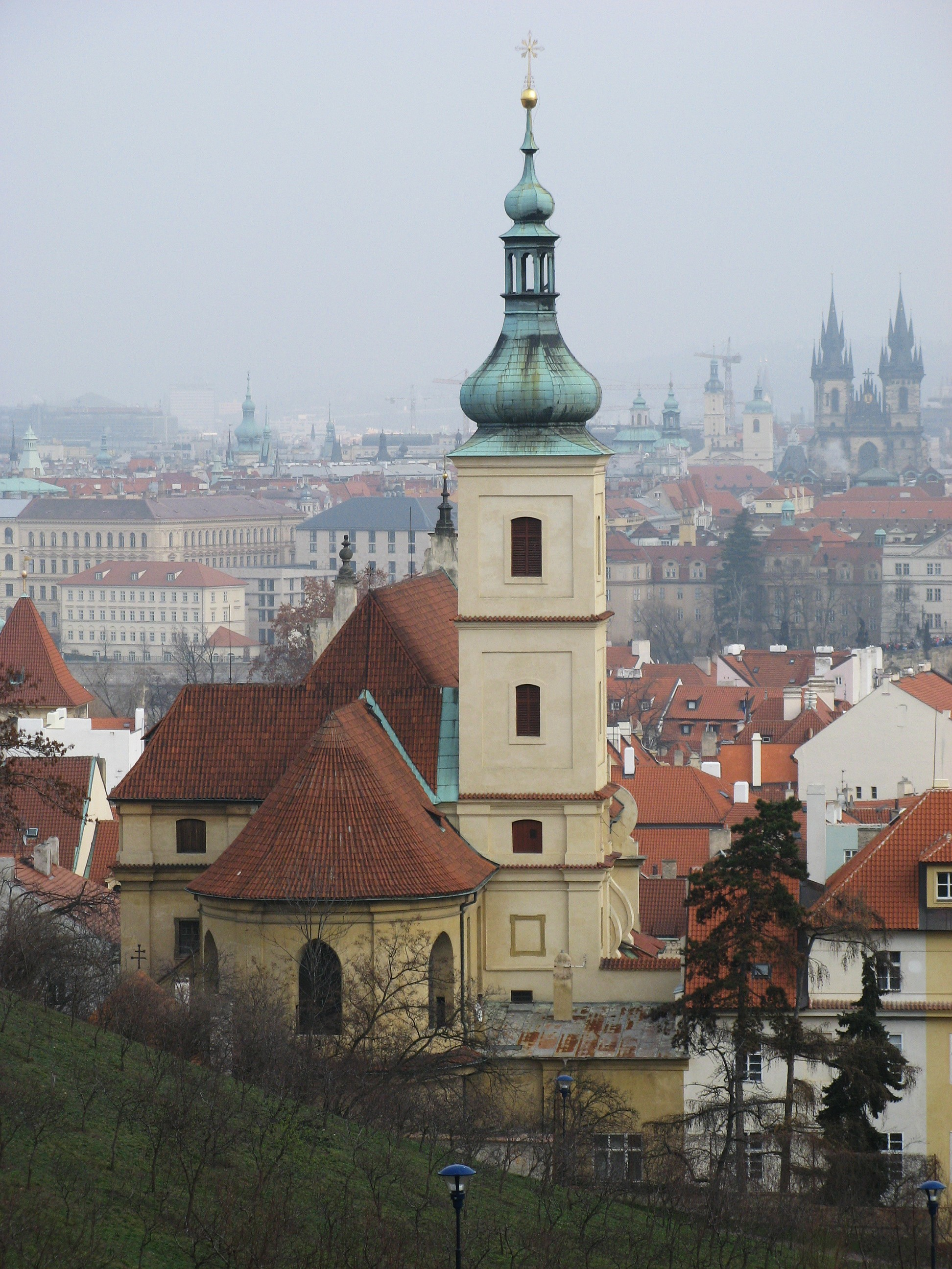 Church of Our Lady Victorious in Karmelitská street, Lesser Town, Prague from Petřín, back Church of Our Lady in front of Týn